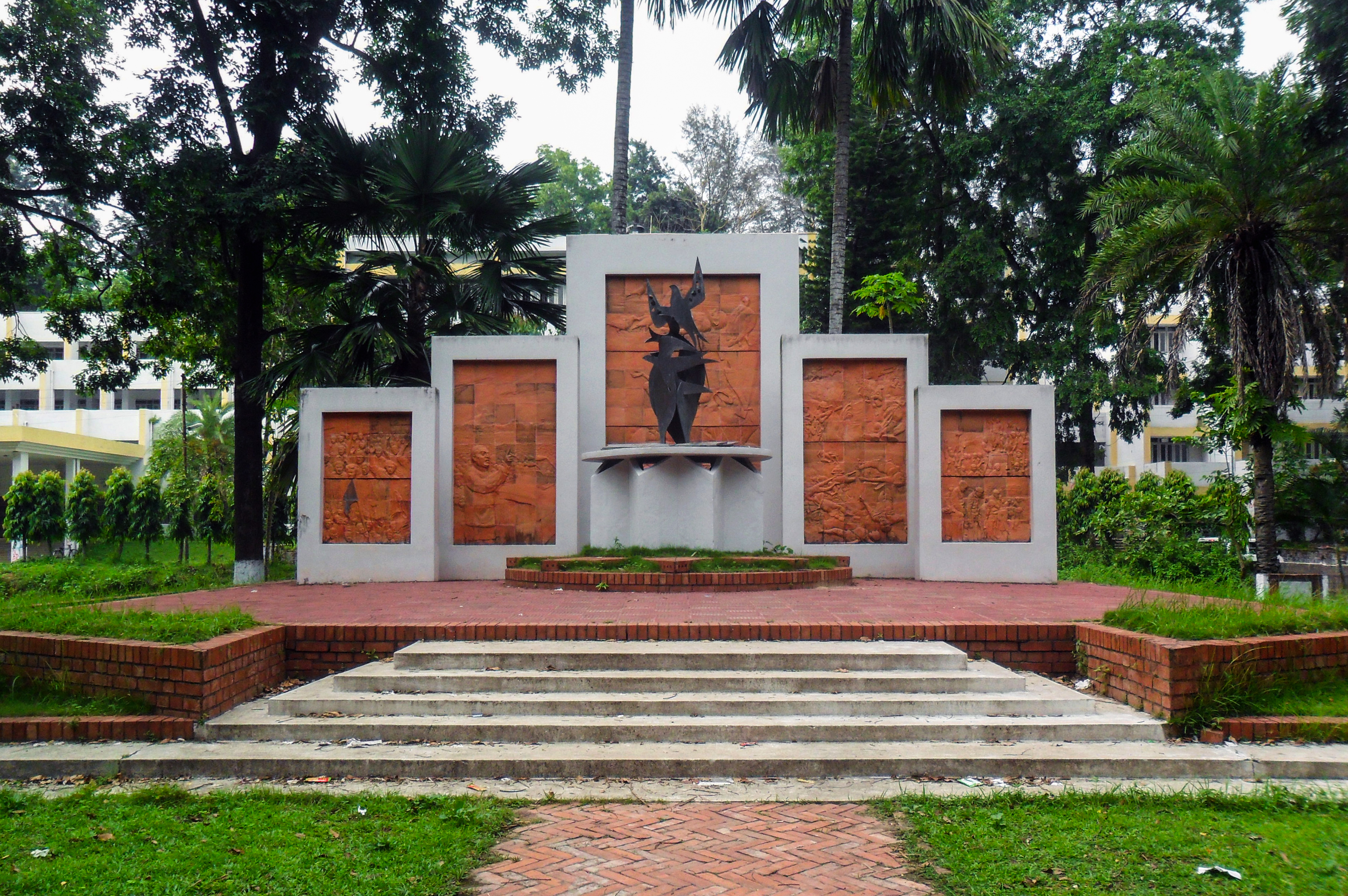 Swadhinata Smrity Mural (Independence Memorial Mural), University of Chittagong